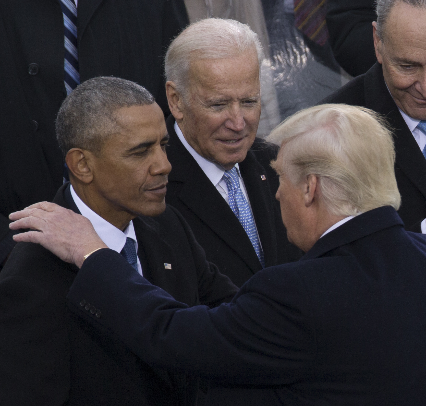 President Donald J. Trump shakes hands with the 44th President of the United States, Barack H. Obama during the 58th Presidential Inauguration at the U.S. Capitol Building, Washington, D.C., Jan. 20, 2017. More than 5,000 military members from across all branches of the armed forces of the United States, including Reserve and National Guard components, provided ceremonial support and Defense Support of Civil Authorities during the inaugural period. (DoD photo by U.S. Marine Corps Lance Cpl. Cristian L. Ricardo)